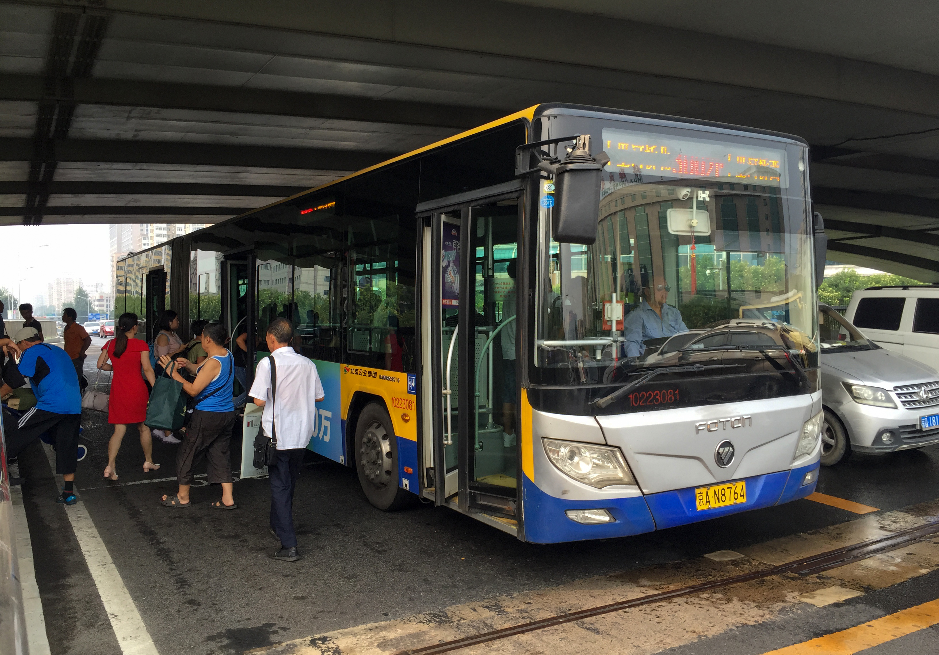 The outer ring of 300 is now using third-hand Foton.